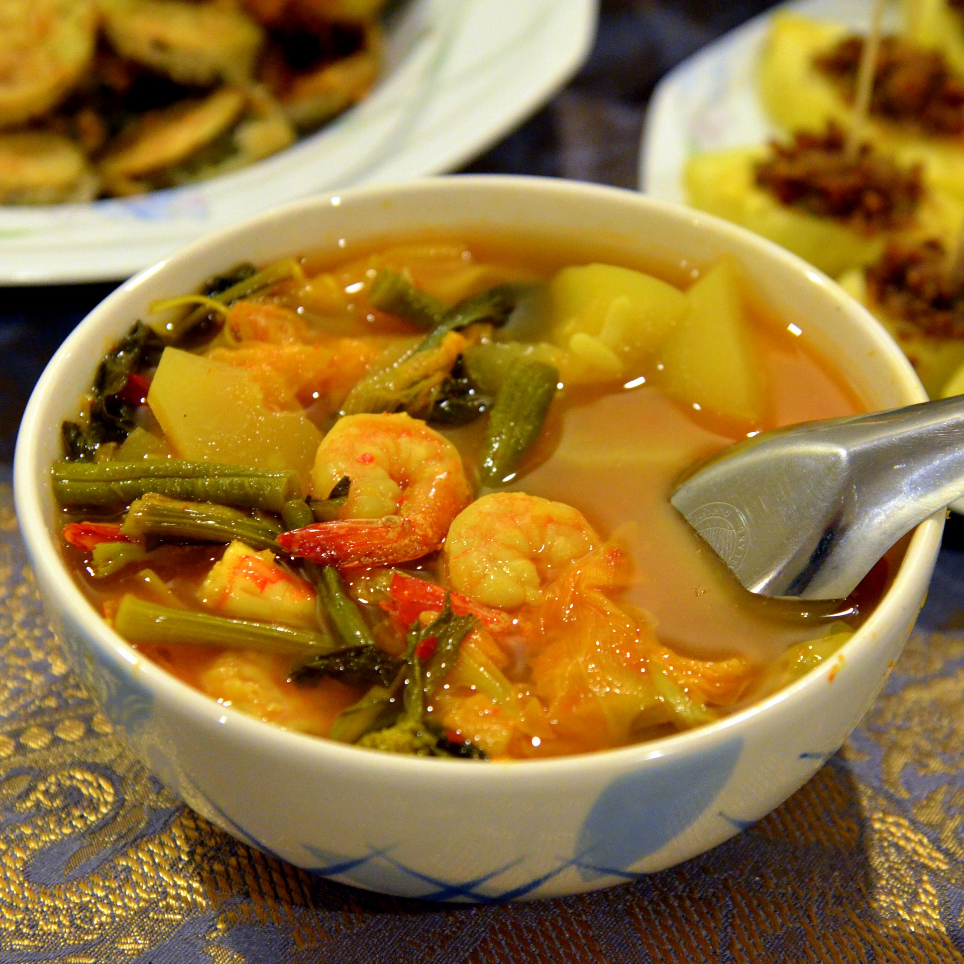 Kaeng som kung (Thai script: แกงสมกุ้ง) is a spicy and sour prawn and vegetable soup/curry deriving its acidity from the use of tamarind juice.